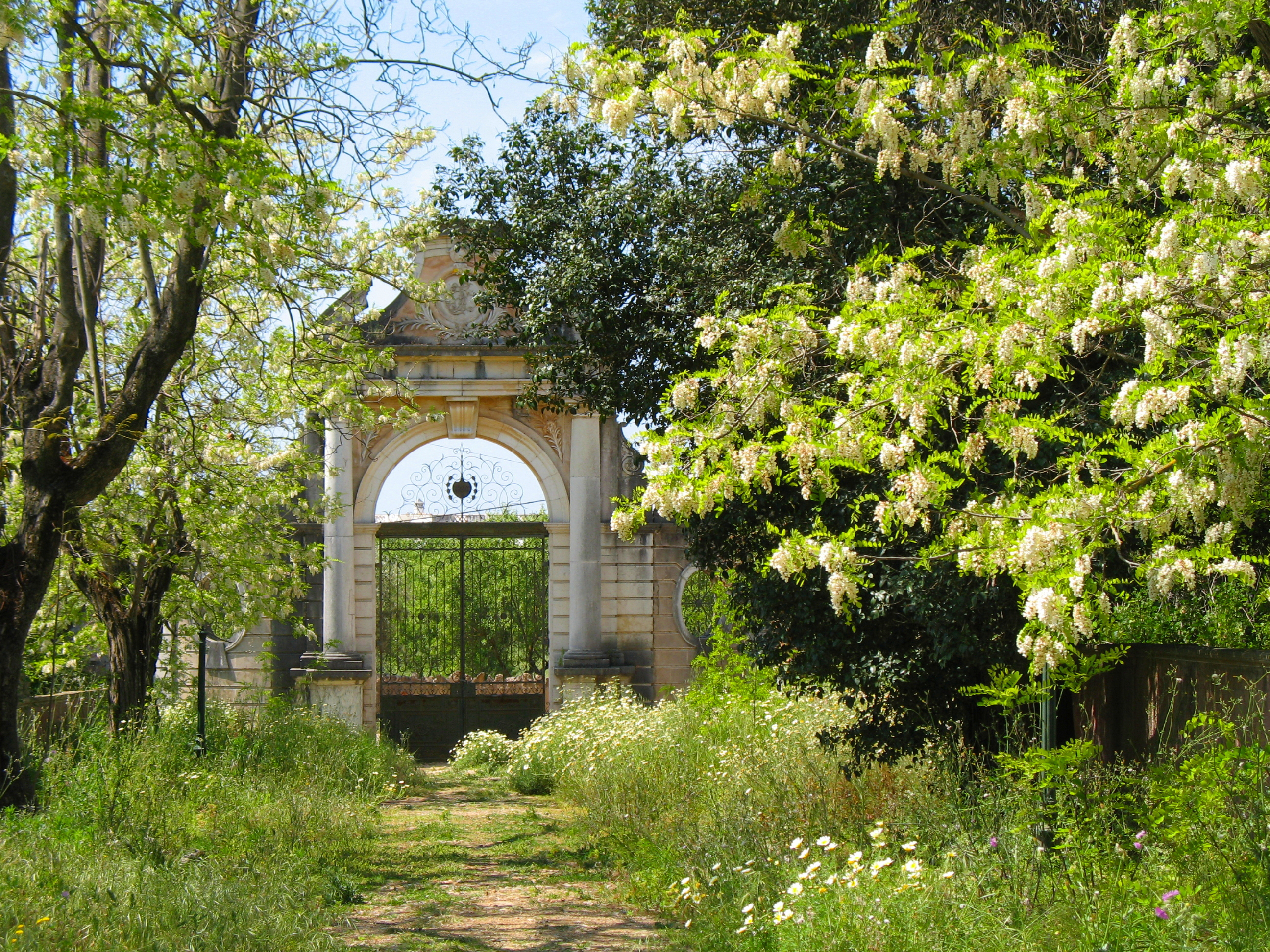 Baroque gate and gardens, with blooming Robinia pseudoacacia, of the Palácio de Estoi. Located in Estoi, Faro district, Algarve region, Portugal.